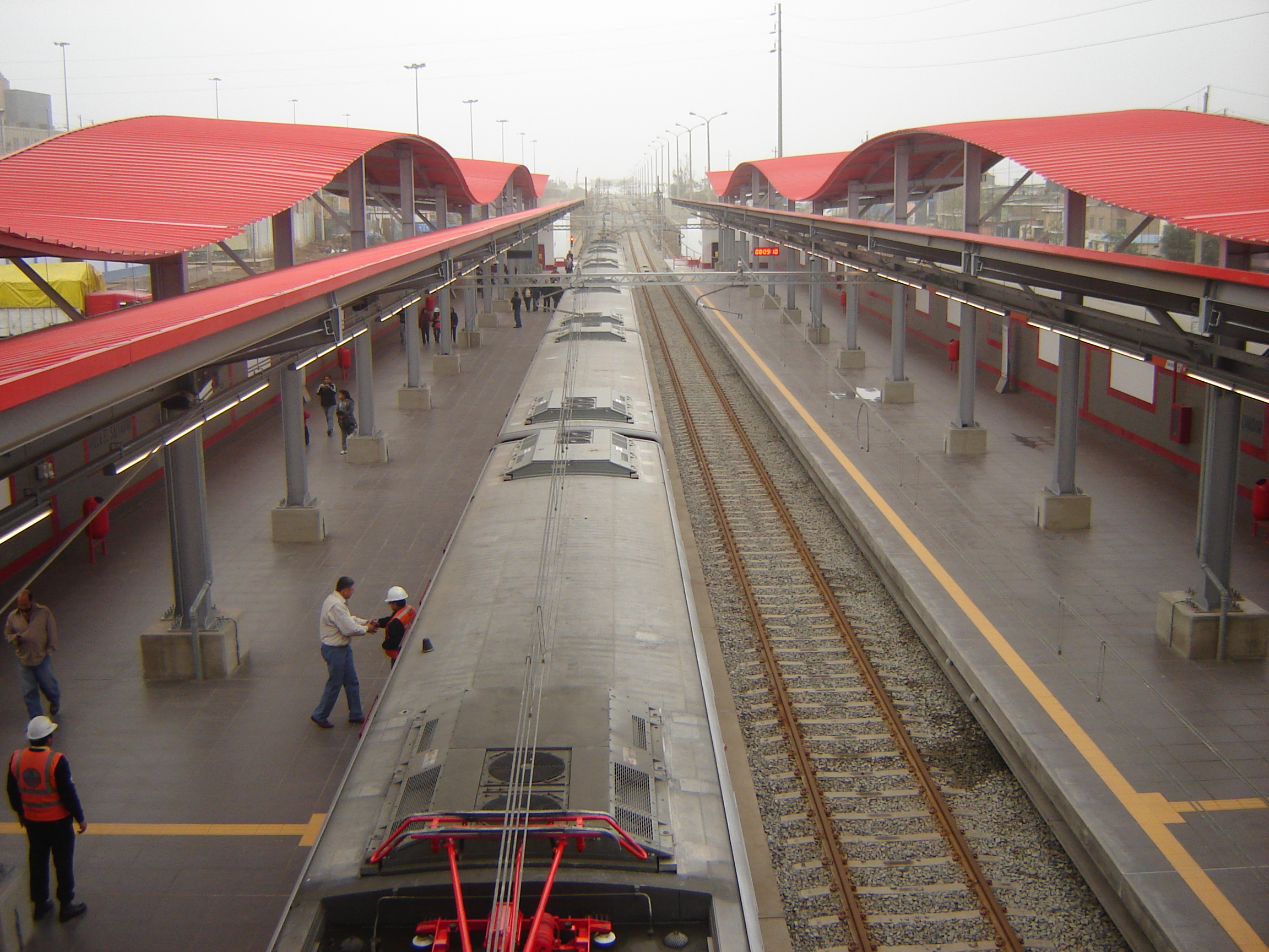 Villa El Salvador del Metro Station in Lima.